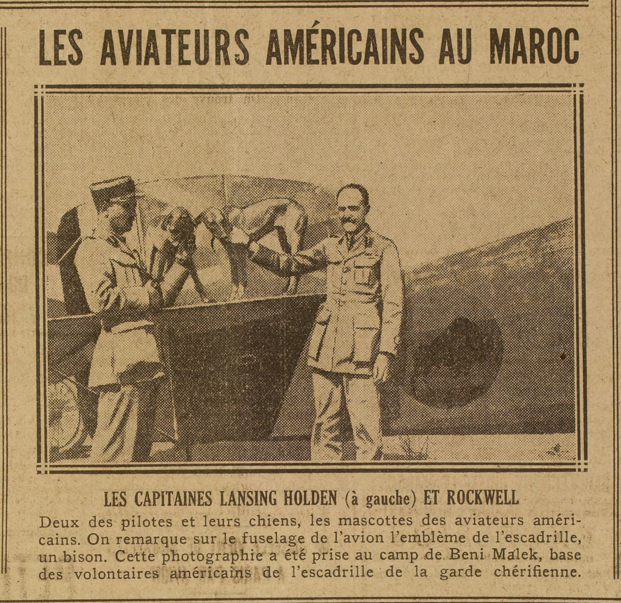 American pilots in Morocco. Escadrille de la Garde Chérifienne. Image taken from page 4 of Excelsior : journal illustré quotidien published October 3, 1925. Title : Excelsior : journal illustré quotidien : informations, littérature, sciences, arts, sports, théâtre, élégances Publisher : (Paris) Publication date : 1925-10-03 Contributor : Lafitte, Pierre (1872-1938). Directeur de publication Type : text Type : printed serial Language : french Language : français Description : 03 octobre 1925 Description : 1925/10/03 (A16,N5409). Rights : public domain Identifier : ark:/12148/bpt6k46037774 Source : Bibliothèque nationale de France, département Droit, économie, politique, JOD-228 Relationship : Provenance : Bibliothèque nationale de France Date of online availability : 04/07/2016